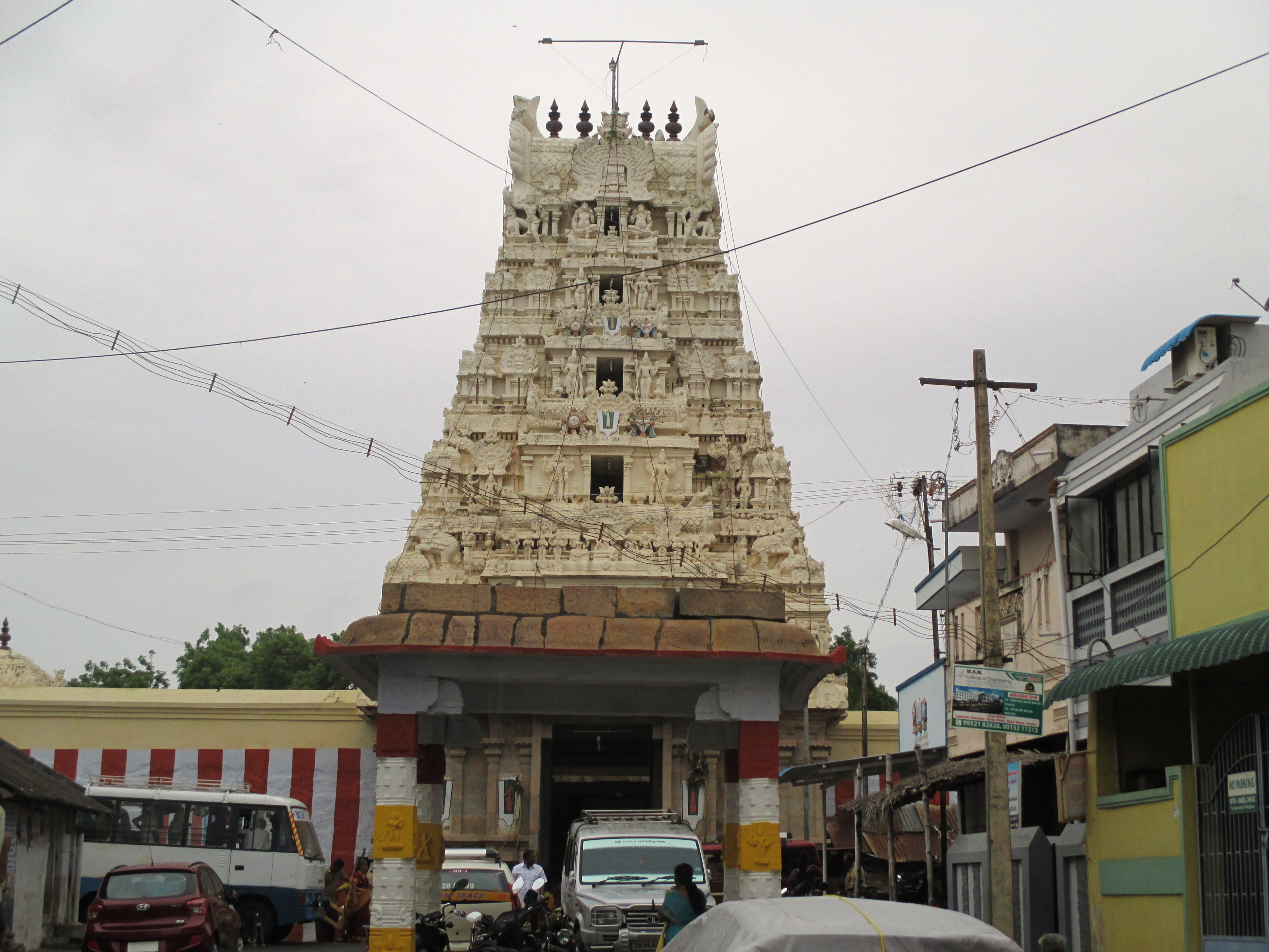 Sri Azhagiya Manavala Perumal Temple